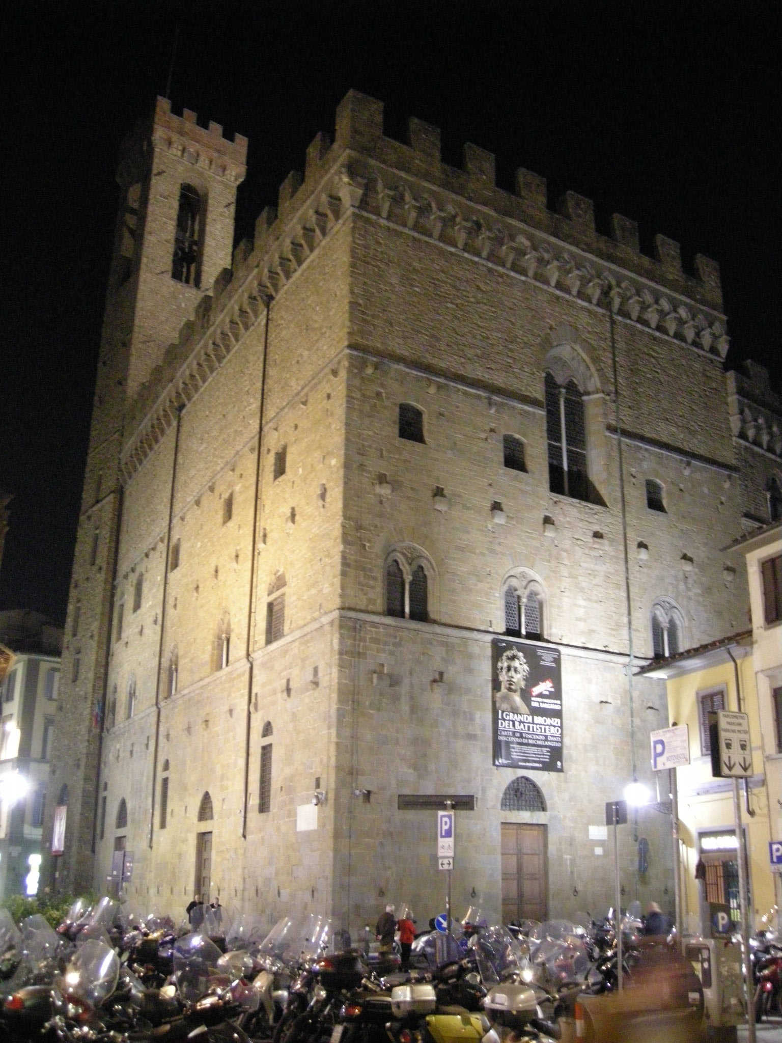 Bargello by night